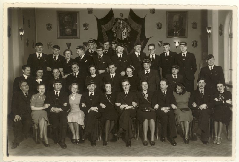 Neo-Lithuania organization students and lecturers in 1939. Neo-Lithuania is a national organization of Lithuanian students, operating in 1922–1940 at the Vytautas Magnus University, 1955–1993 in the diaspora, and since 1990 - again in Lithuania.